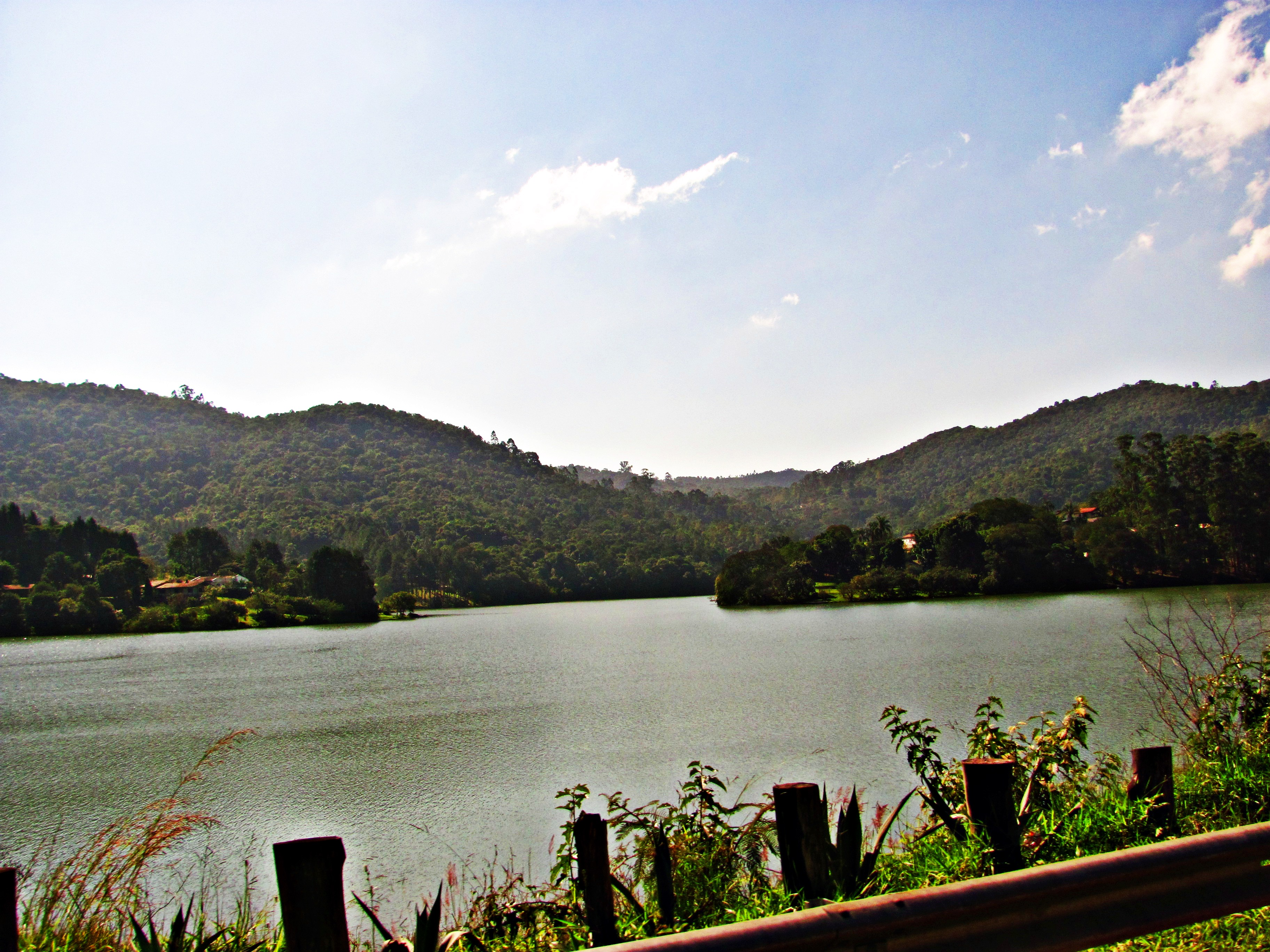 Paulo de Paiva Castro reservoir, Brazil